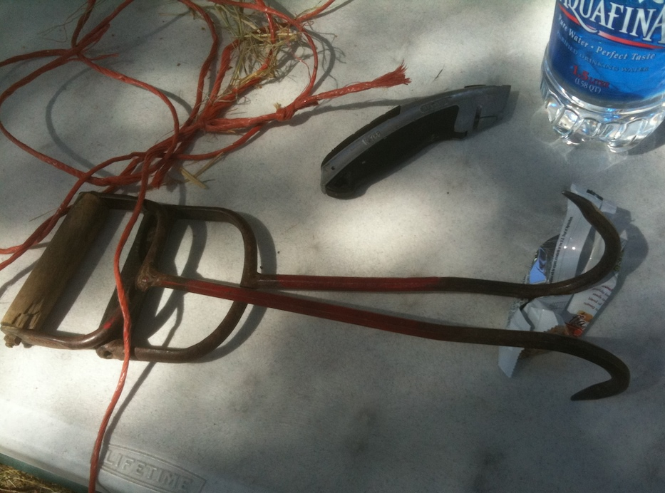 Red baling twine and two bale hooks, used to handle straw and hay bales; California, USA